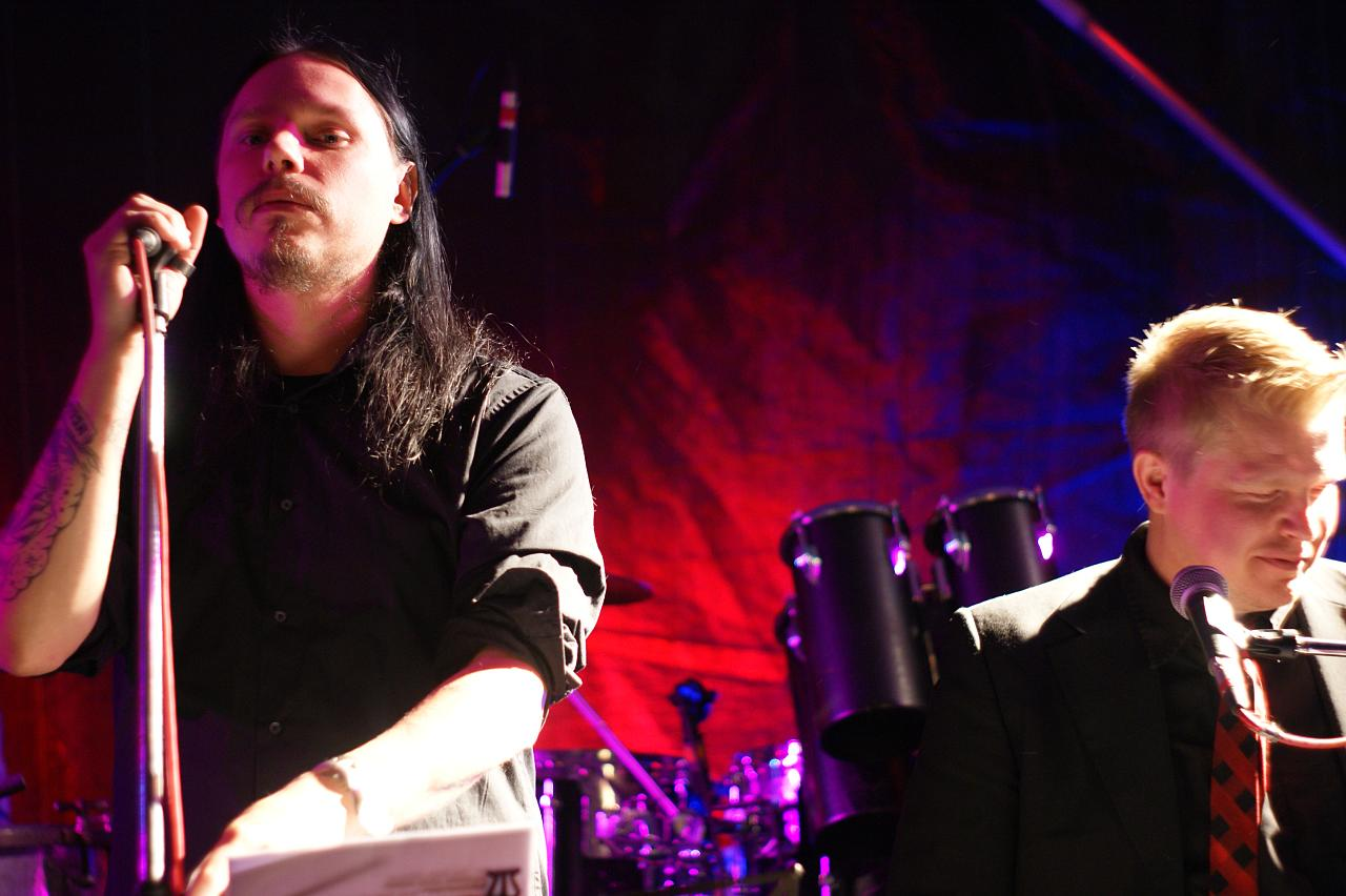 Swedish Neoclassical/Ambient band Arcana at Mithras Garden Festival, Koblenz, Germany on September 13th 2008.